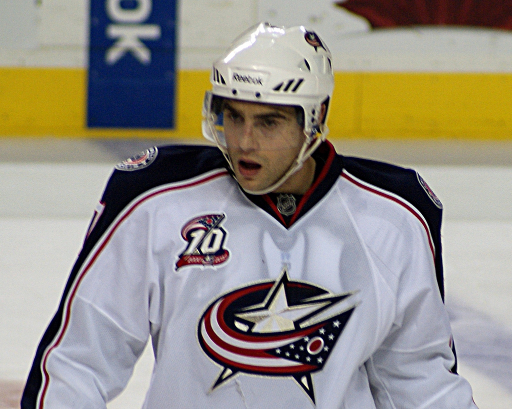 Andrew Murray, born November 6, 1981 in Selkirk, Manitoba, is a Canadian hockey player currently with the Columbus Blue Jackets of the National Hockey League. This NHL game action photo was taken December 13, 2010 at the Scotiabank Saddledome in Calgary, Alberta.